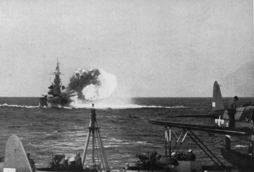 The U.S. Navy battleship USS North Carolina (BB-55) bombarding Nauru, 8 December 1943, destroying air facilities, beach defense revetments, and radio installations. Note the Vought OS2U Kingfisher at right on the ship (unknown) ahead.